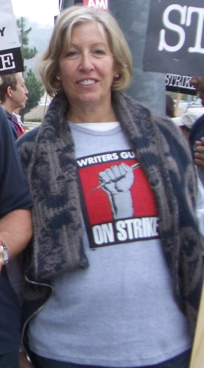 Naren Shankar, William Petersen and Carol Mendelsohn of "CSI."